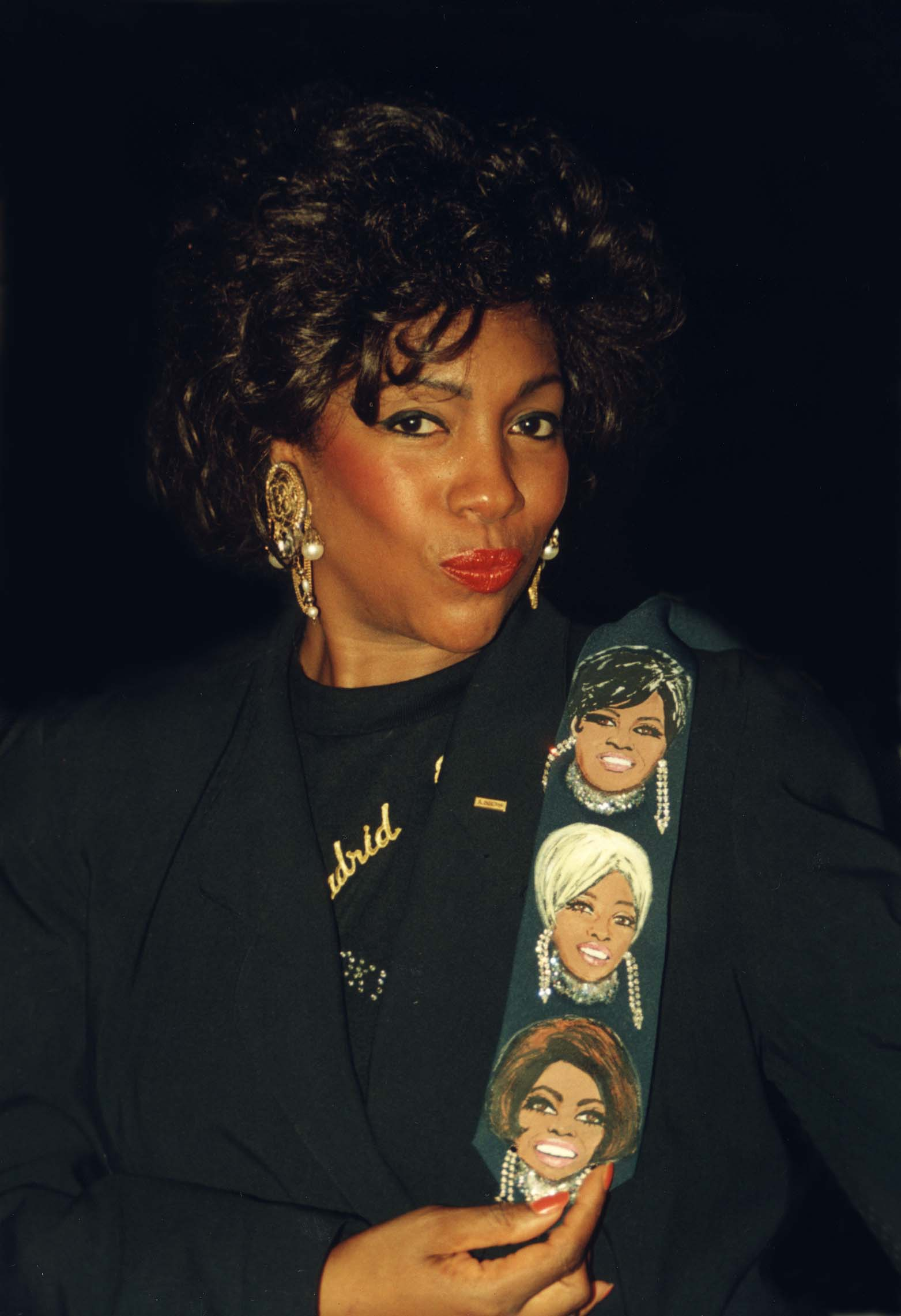 Baltimore M.D. Sept. 1994 Peabody institute